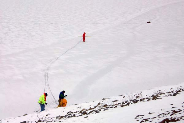 A deer is rescued from the ice of the Michael J Kirwan Lake at the dam by the Paris Township, Portage County, Ohio Fire Department